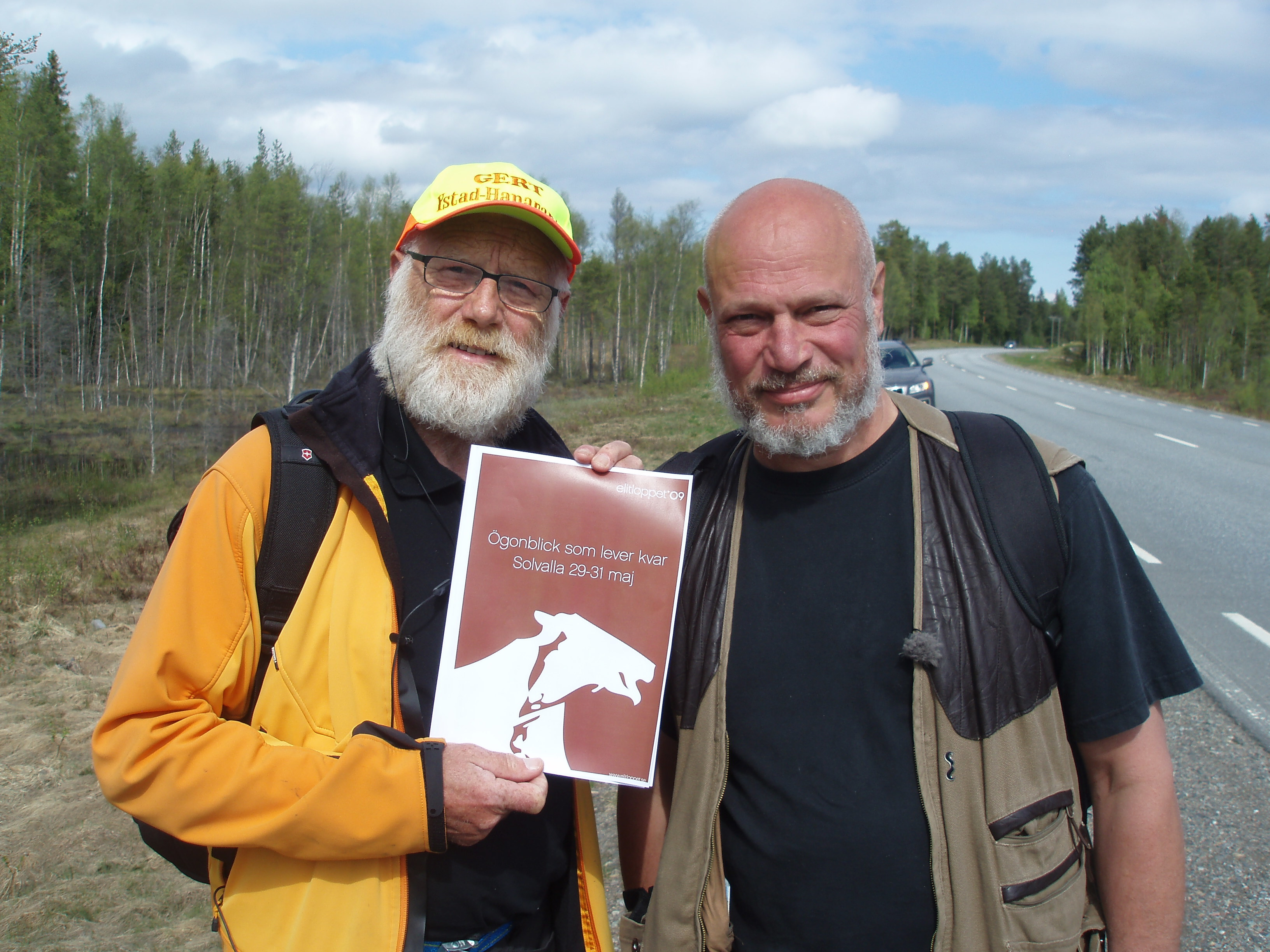 Gert Fylking och Robert Aschberg i Skellefteå, under sin vandring mellan Ystad och Haparanda.